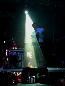 BT Playing Live @ Ultra Music Festival 2008